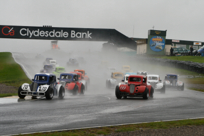 Scottish Legends Championship race start in the rain at Knockhill, Heat 1b, Round 5, 16th September 2007